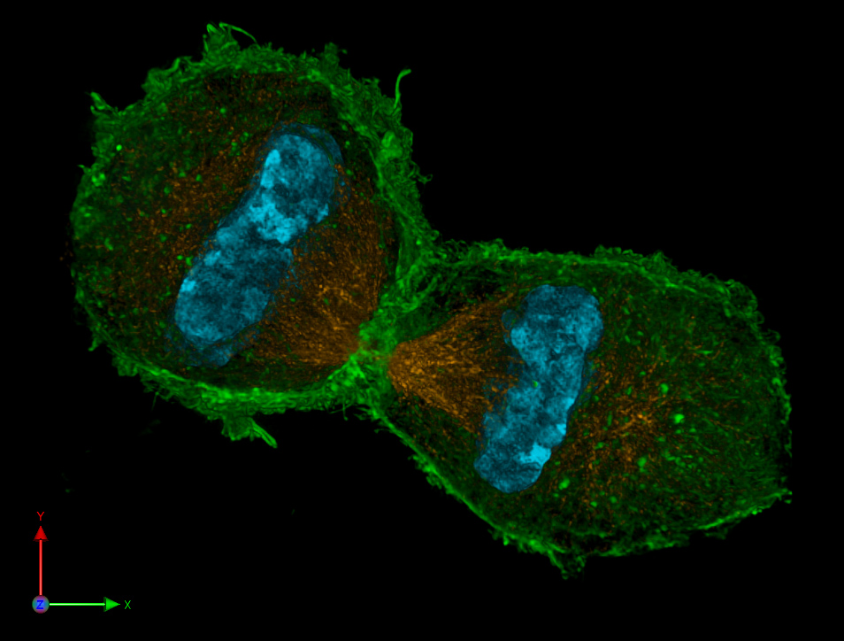 3D representation of two mouse daughter nuclei in a late stage of nuclear division (Telophase). The spindle apparatus (anti-tubulin Immunostaining, orange), the actin cytoskeleton (Phalloidin staining, green) and chromatin (DAPI-staining, cyan) are visualized. For further information see: Schermelleh L, Carlton PM, Haase S, Shao L, Winoto L, Kner P, Burke B, Cardoso MC, Agard DA, Gustafsson MG, Leonhardt H, Sedat JW (June 2008). "Subdiffraction multicolor imaging of the nuclear periphery with 3D structured illumination microscopy". Science (journal) 320 (5881): 1332–6. PMID 18535242.